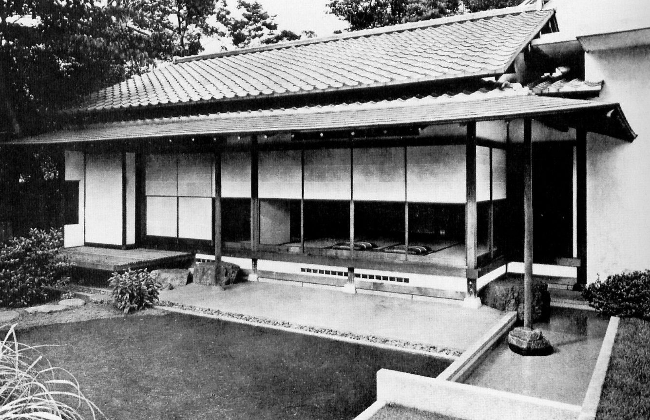 Horiguchi Sutemi: Okada house, 1934, Tokyo